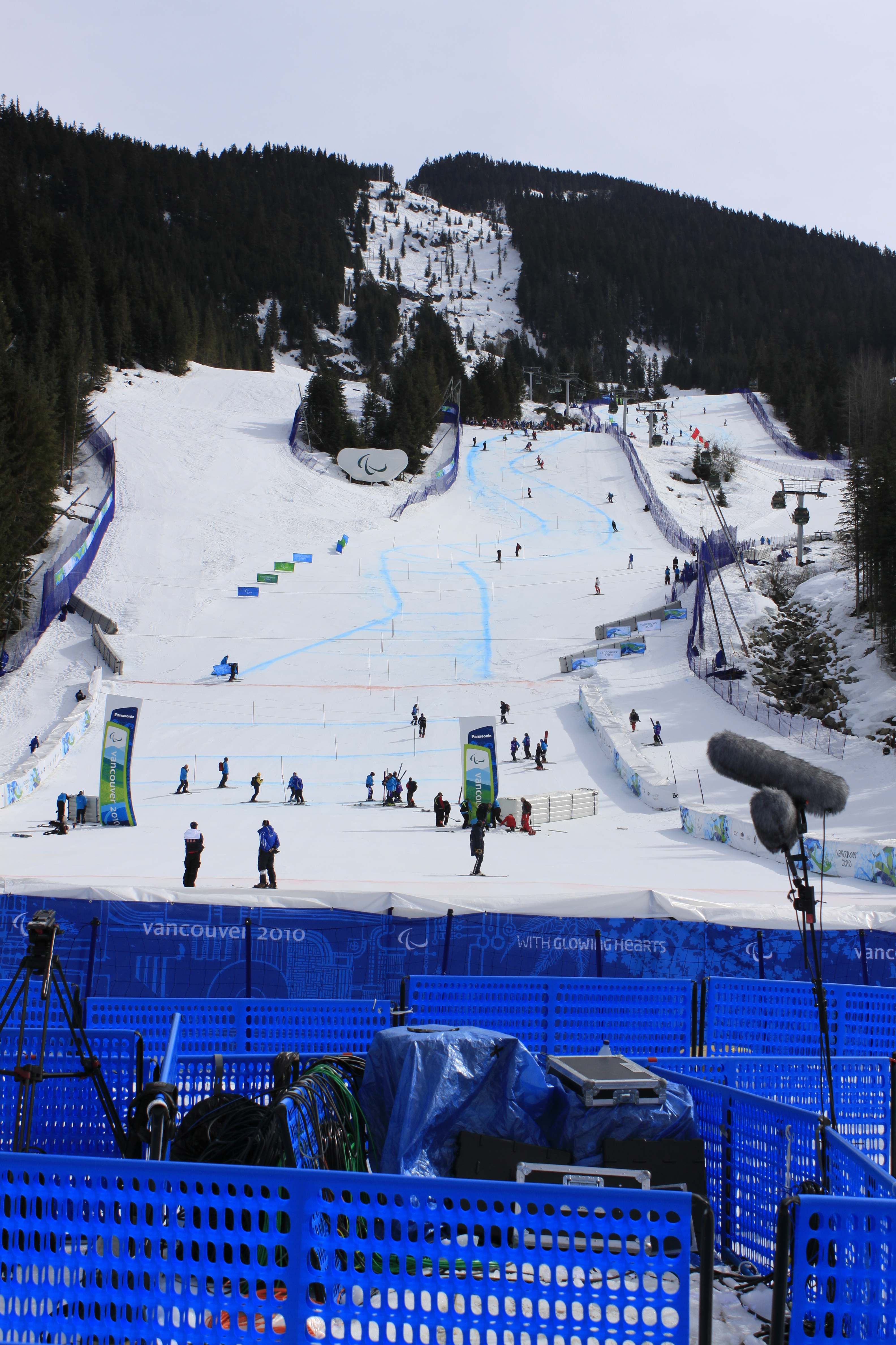 Whistler, Vancouver, the finals of the Alpine skiing, during the 2010 Paralympics in Vancouver.